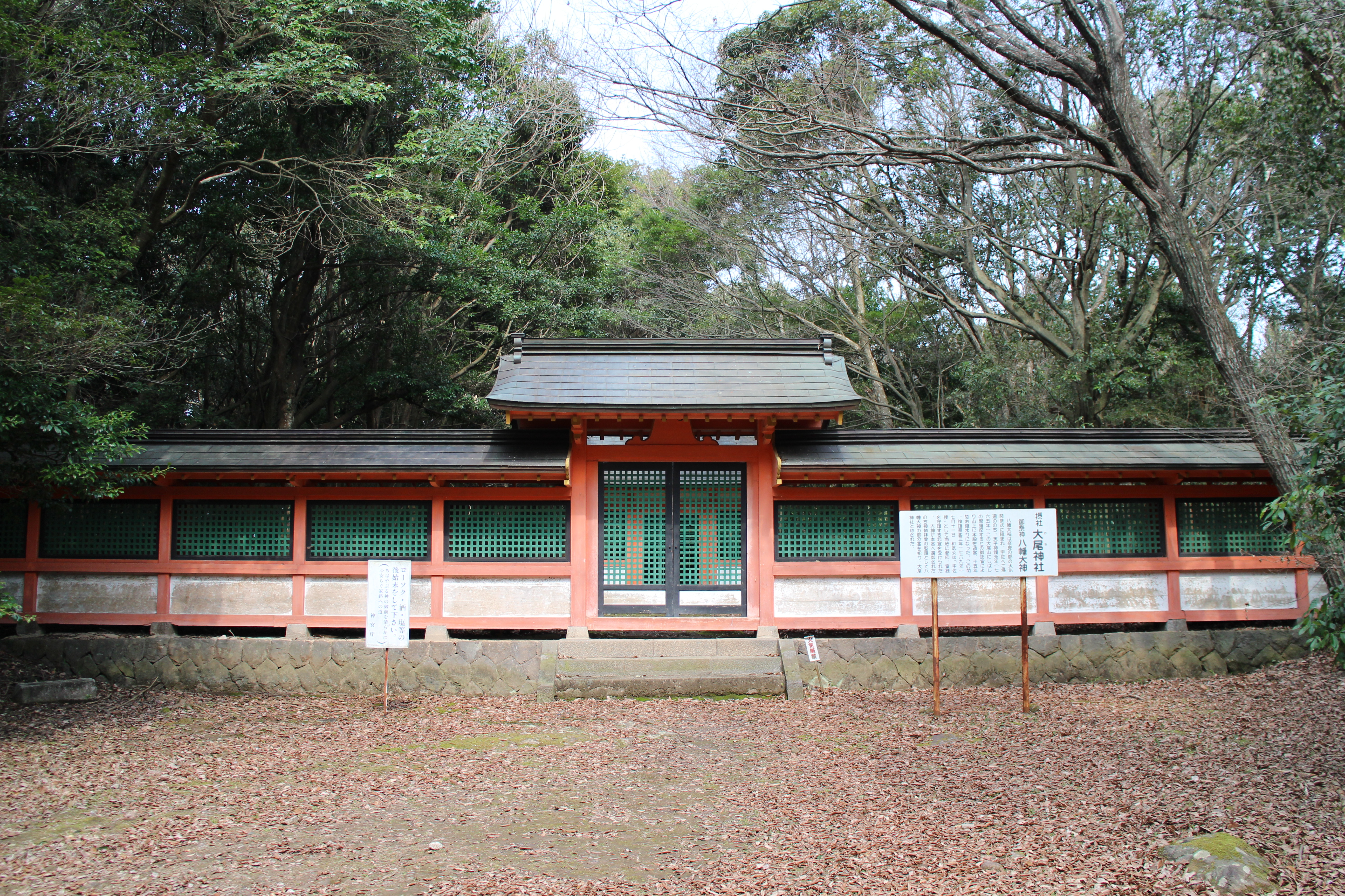 oo-shrine